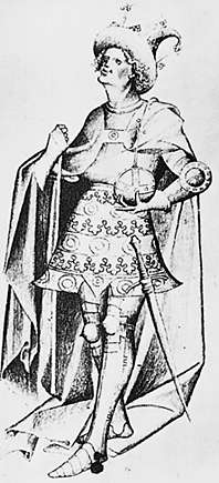 Eric of Pomerania portrayed in 1424 by unknown artist. Louvren, Paris. The complete drawing shows two additional monarchs, including Emperor Sigismund of Germany and John of the Byzantine Empire.